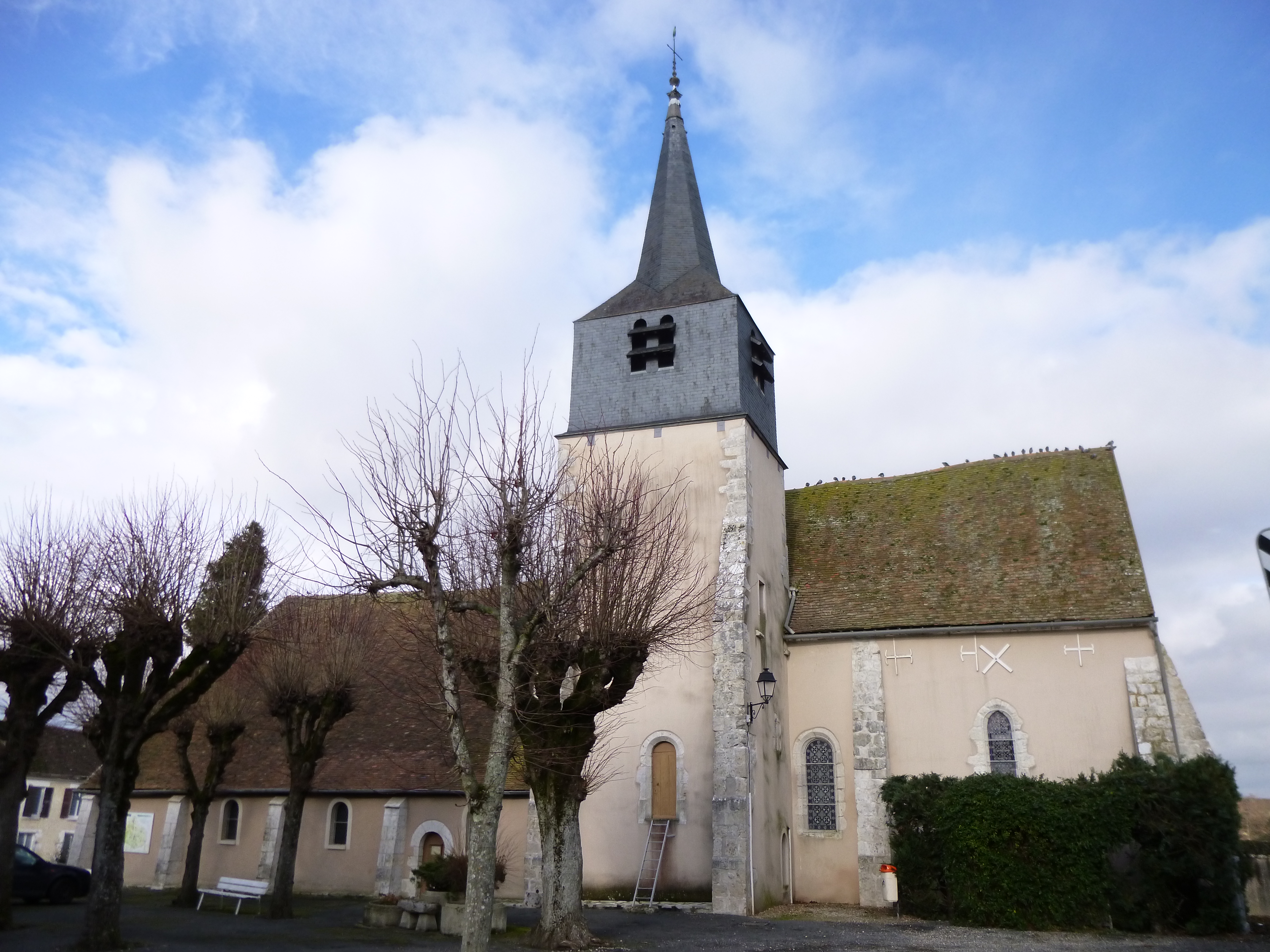 La Chapelle-sur-Aveyron, Loiret, Centre, France. Saint-Loup et Saint-Roch church, south side.